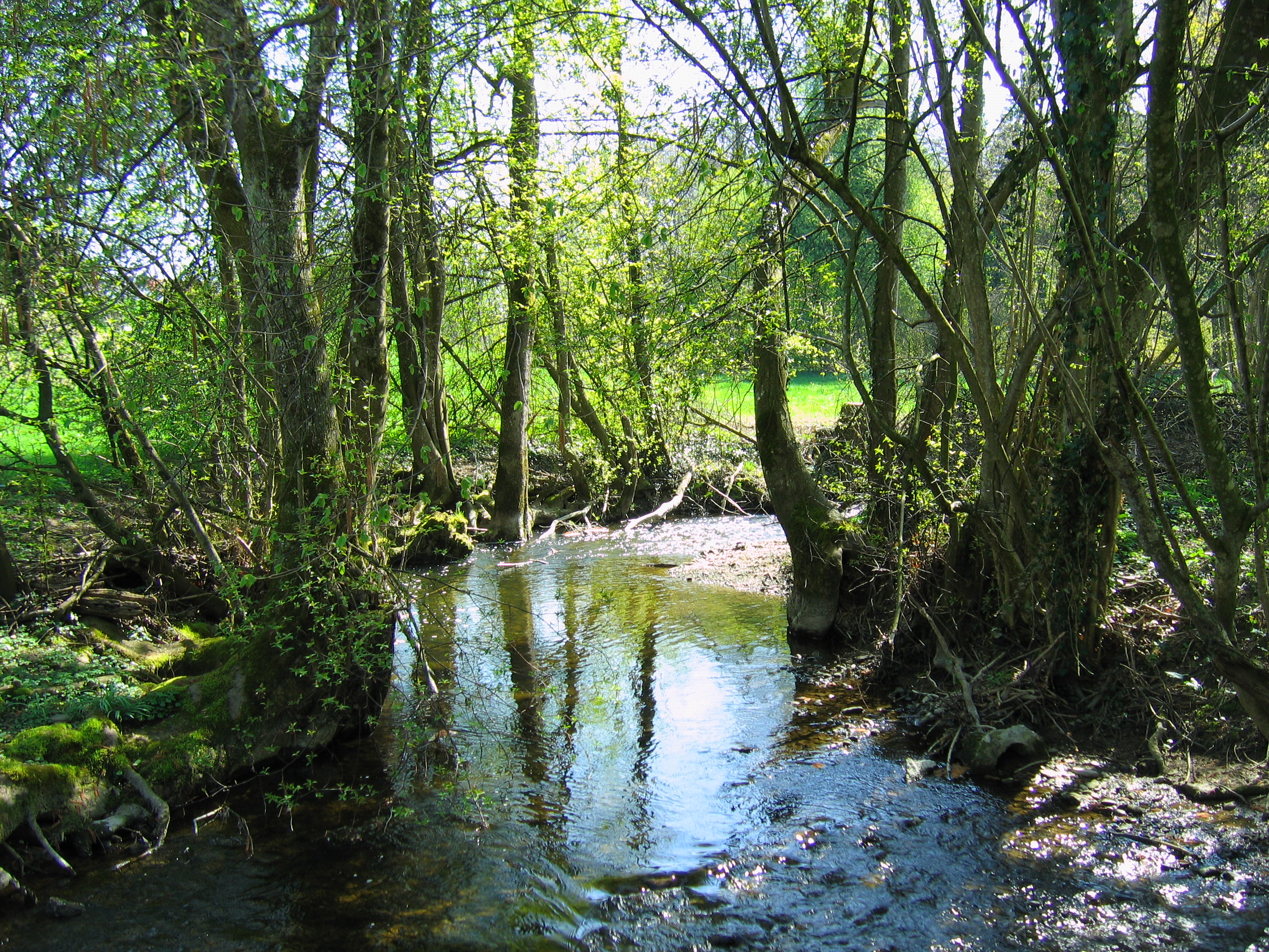 Germany - Baden-Württemberg - Bodenseekreis - Kressbronn am Bodensee: Nonnenbach